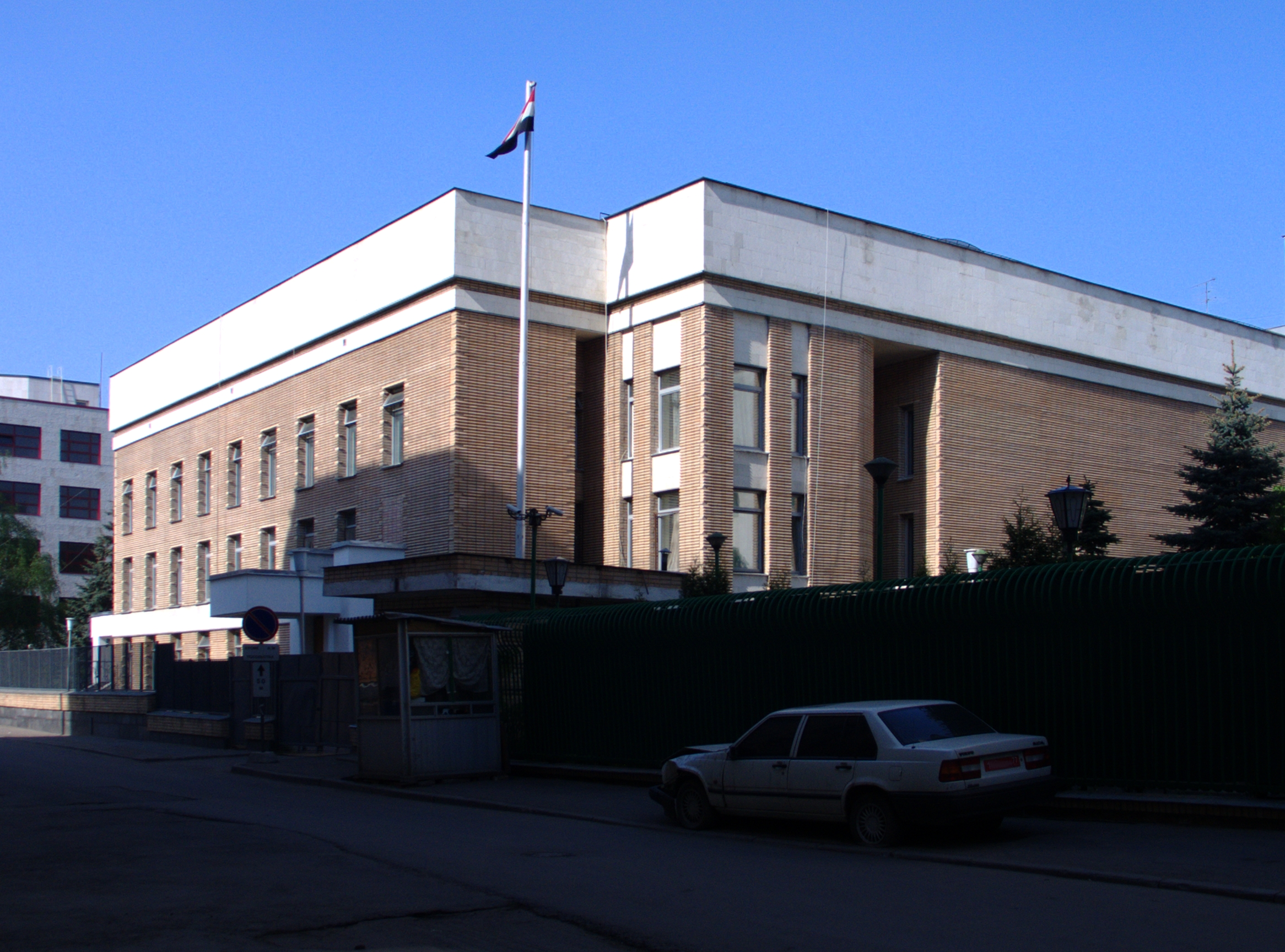 Building of the Embassy of Yemen in Moscow (Second Neopalimovskiy side-street 6).